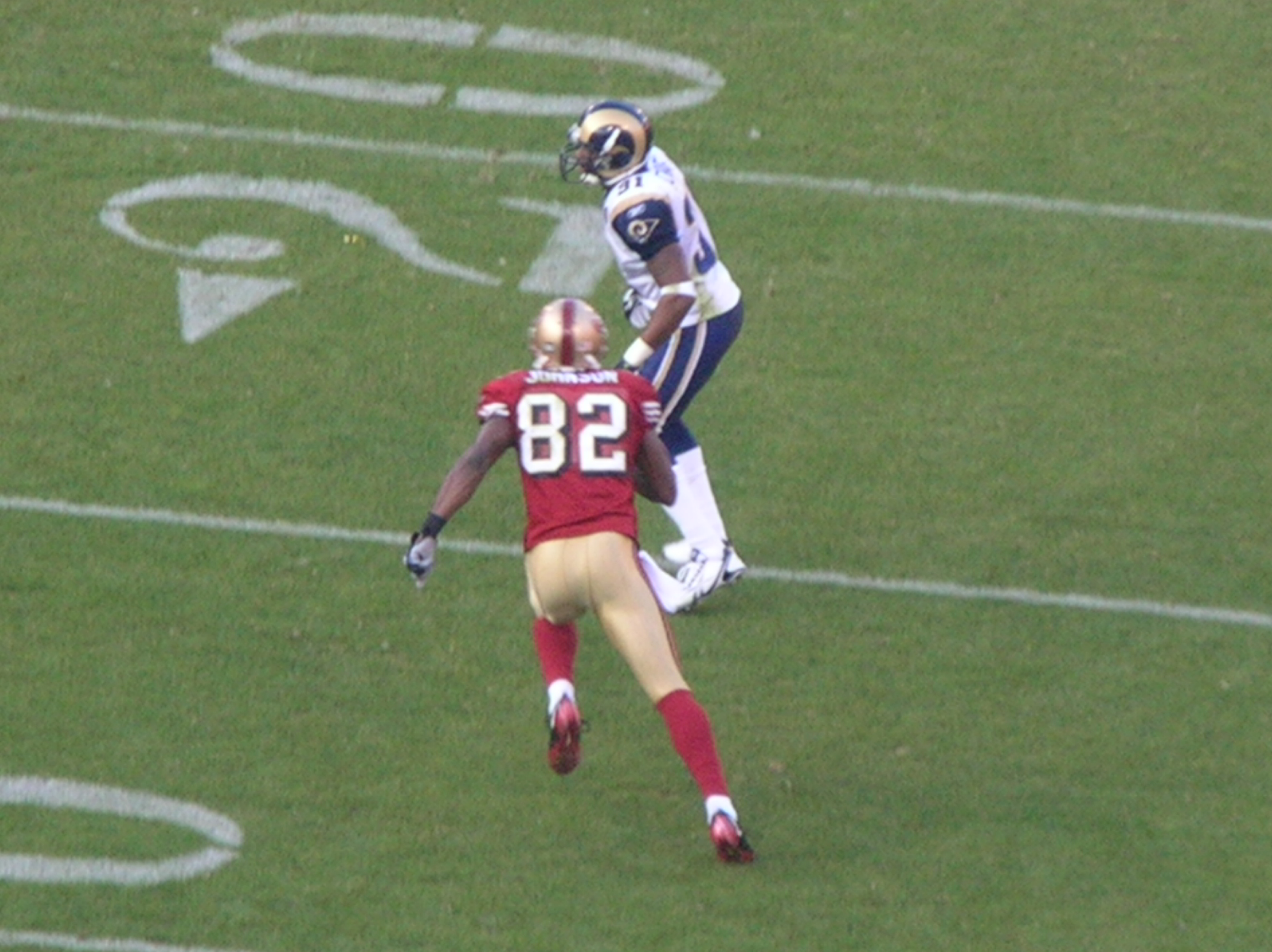 St. Louis Rams cornerback Jason Craft covers San Francisco 49ers wide receiver Bryant Johnson during a regular season game against the St. Louis Rams. The 49ers won 35-16.